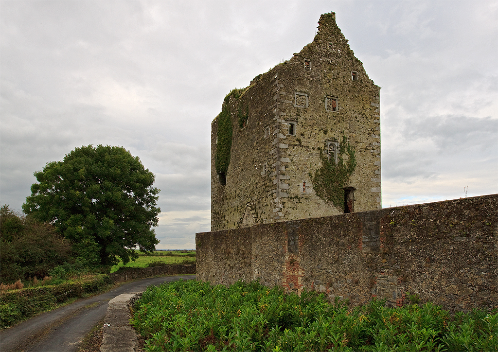 Castles of Munster: Clenagh, Clare Remote and isolated on a no-through minor road on the east side of the Fergus estuary, this C16 tower was first mentioned in the early C17 as being held by the MacMahon family. They held it until the mid-C18 when by that time it had become quite ruinous.